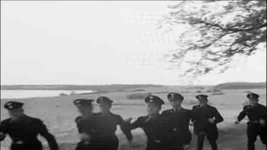 Video still image number 8350 of 14239, at 05:35. See also File: Waffen-SS memorial and raw footage (Denmark, 1944).ogv